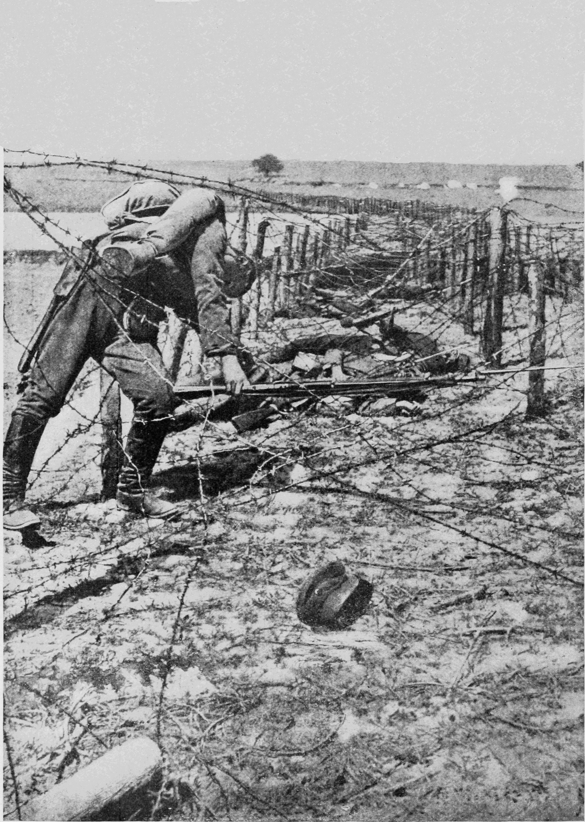 Dead Russian solder in Poland 1916